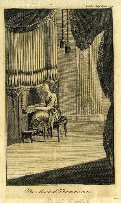 William Crotch aged 3, illustrated in The London Magazine, 1779.